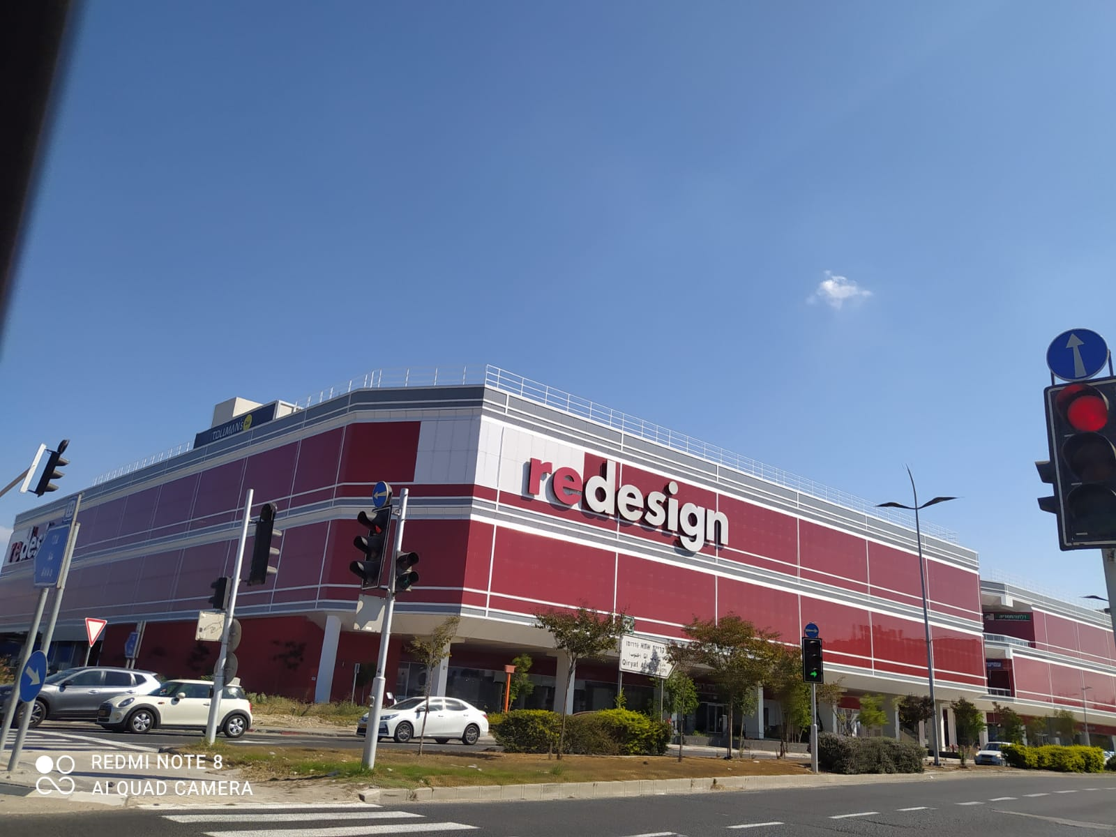 Redesign of what Marib Dam was by the University of Calgary and the American Foundation for Anthropology